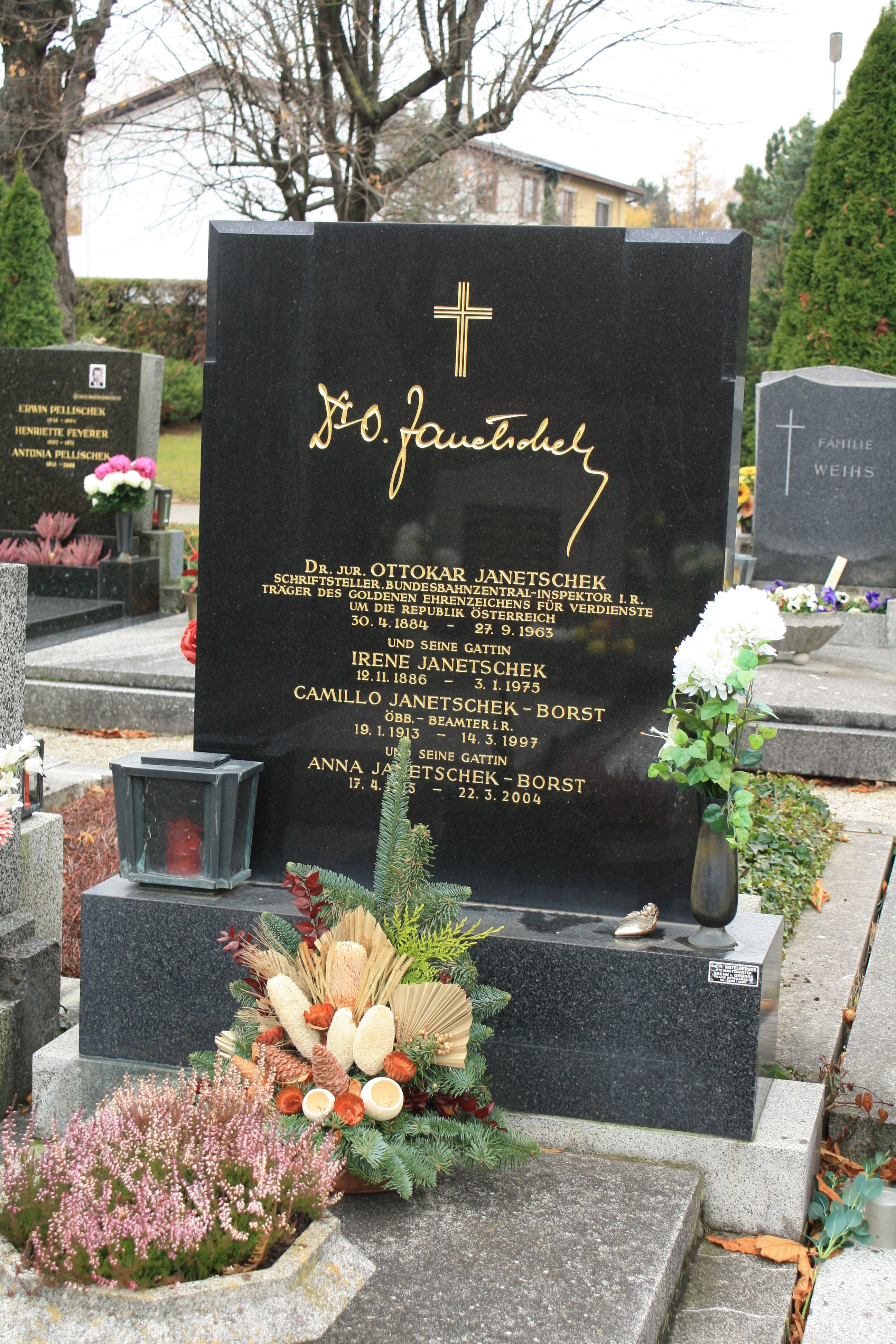 Cemetery in Perchtoldsdorf in Lower Austria